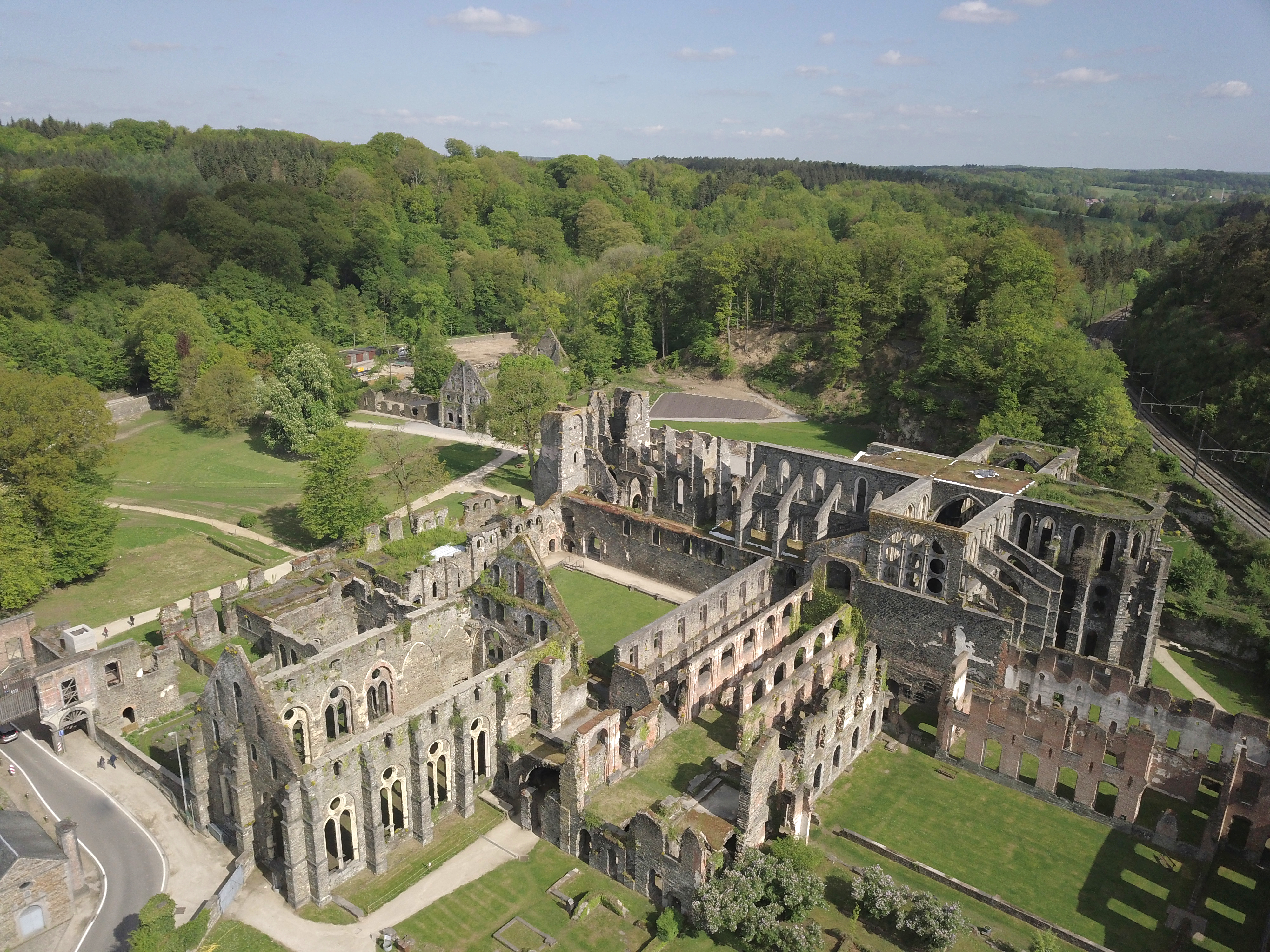 Vue aérienne des ruines de l'Abbaye de Villers-la-Ville